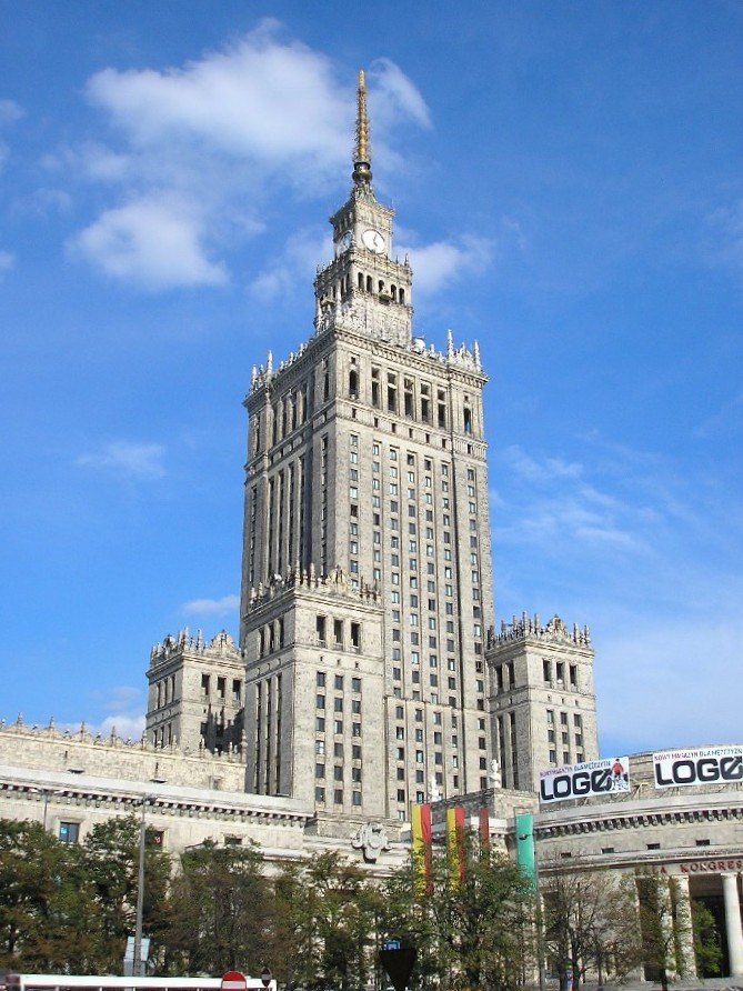 Taken by Valdoria ///Warszawa / Warsow / Varsovia. august 2005.